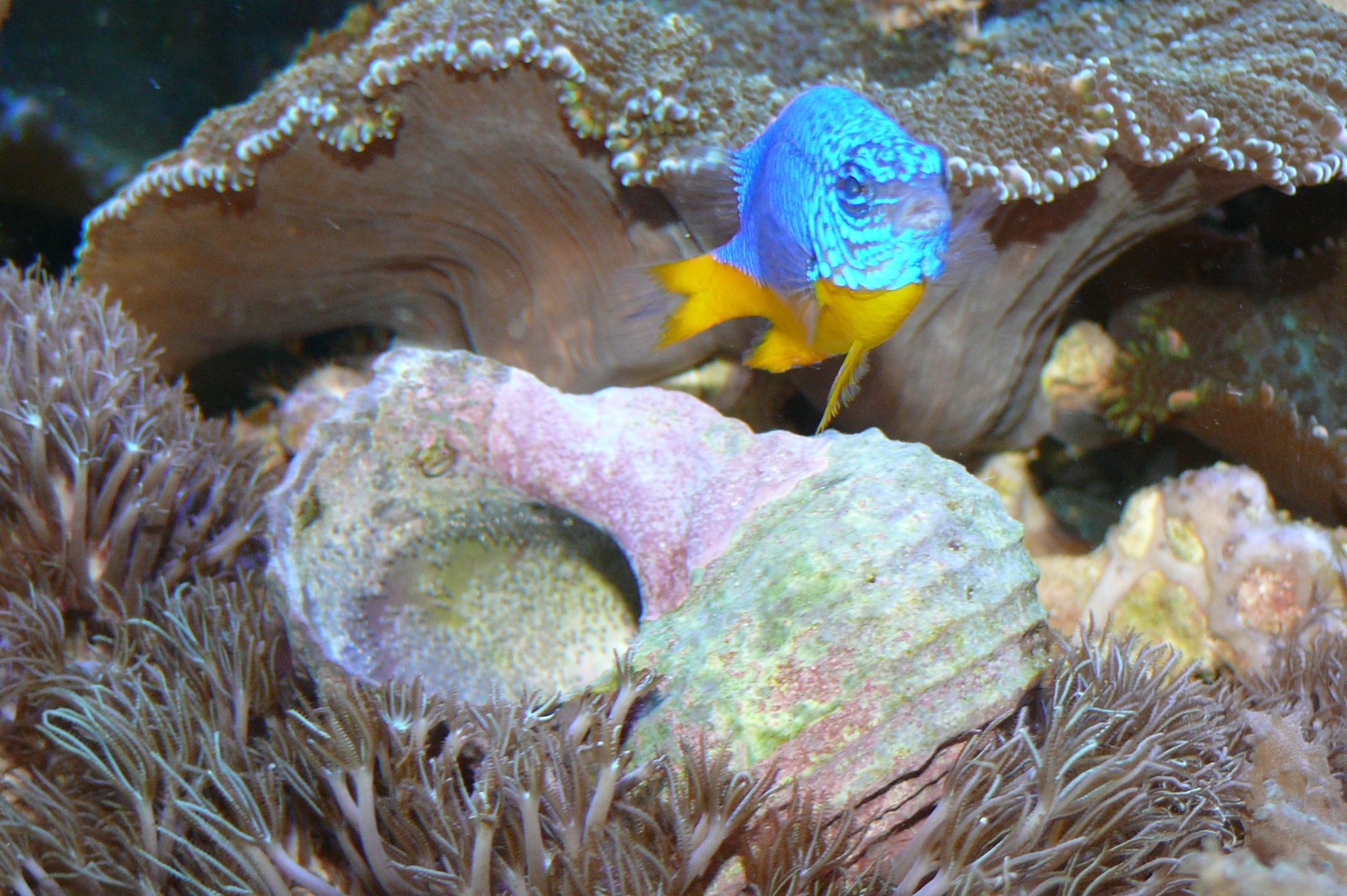 Chrysiptera hemicyanea with its spawn in a gastropod shell